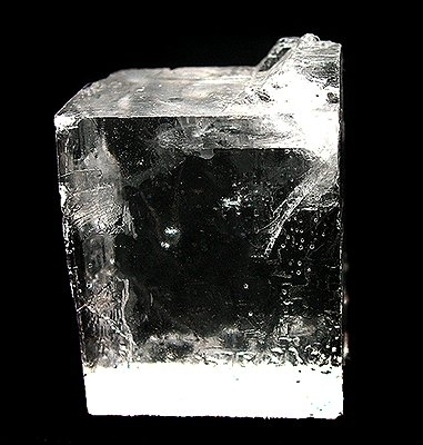 Halite Locality: Redmond, Sevier County, Utah, USA (Locality at ) Size: 2.9 x 2.1 x 1.5 cm. This is an elongated cube of colorless, transparent, and lustrous salt crystal.